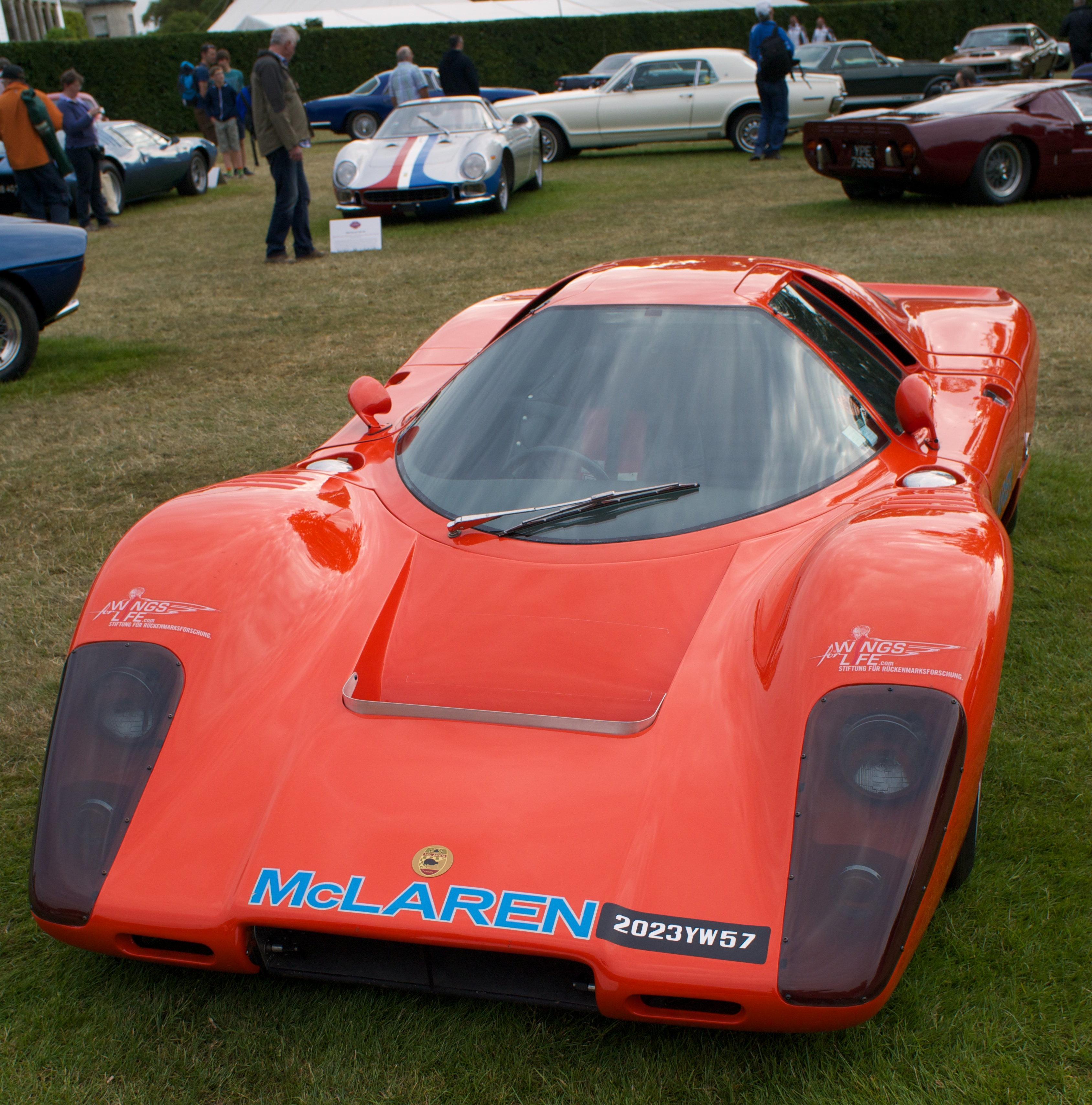 The McLaren M12 Coupé at the 2014 Goodwood Festival of Speed.